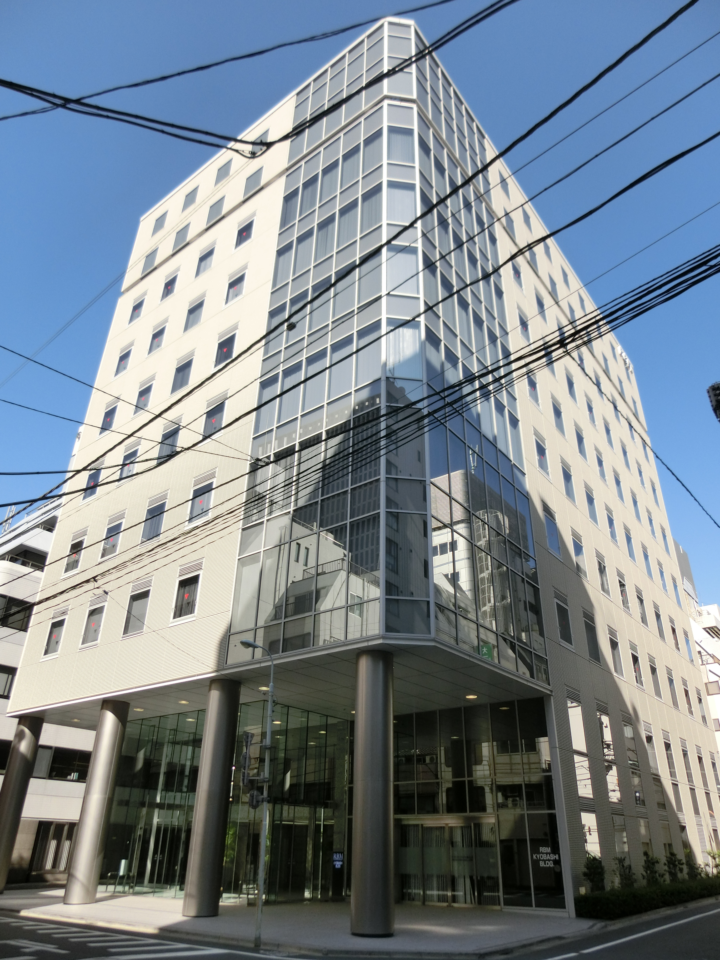 RBM Kyobashi Building